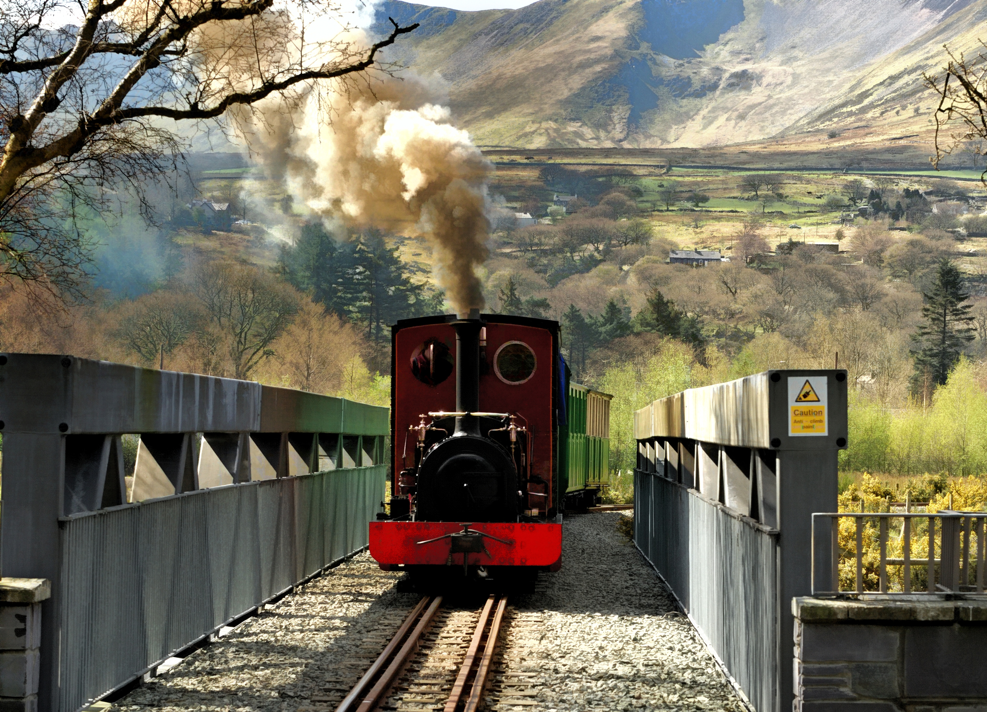 Llanberis Lake Railway's Elidir (1895) hauling a tourist train as it crosses a stream in Padarn Park Llanberis.